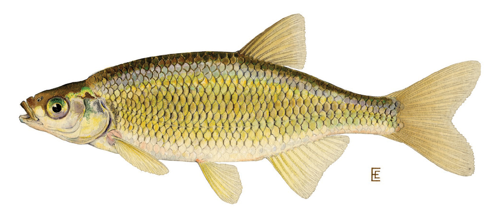 Golden shiner (Notemigonus crysoleucas)